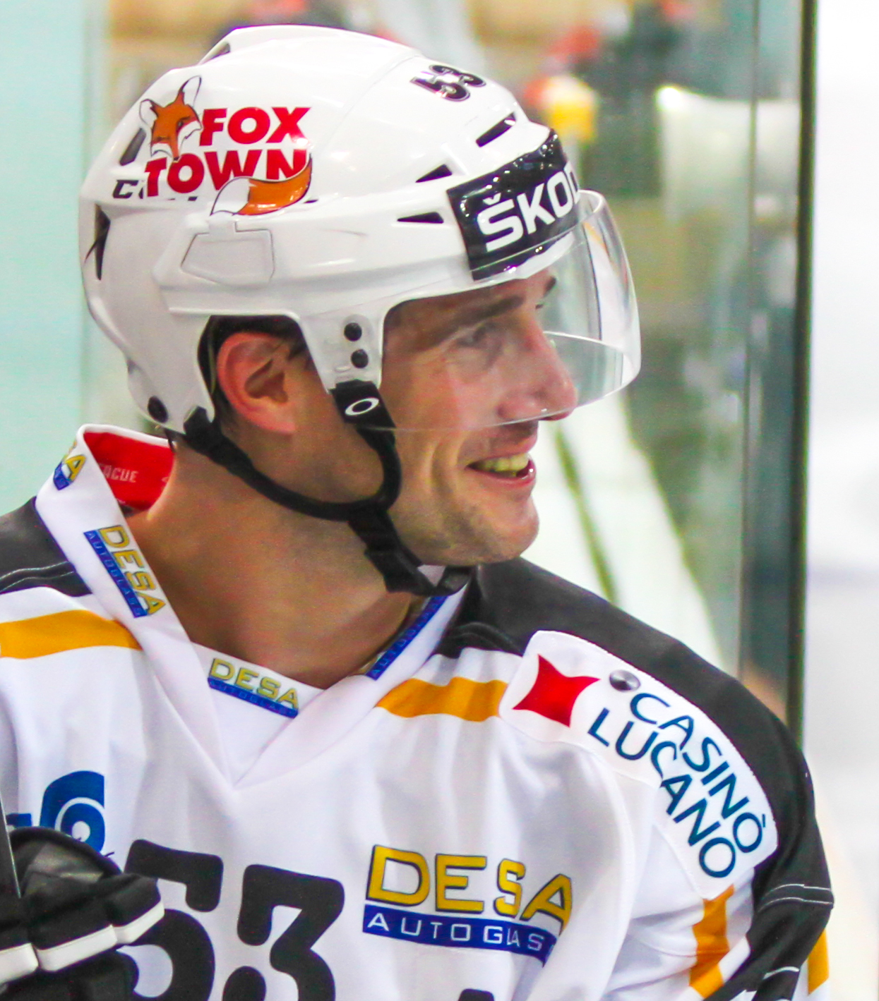 Brett McLean, HC Lugano 13. September 2013